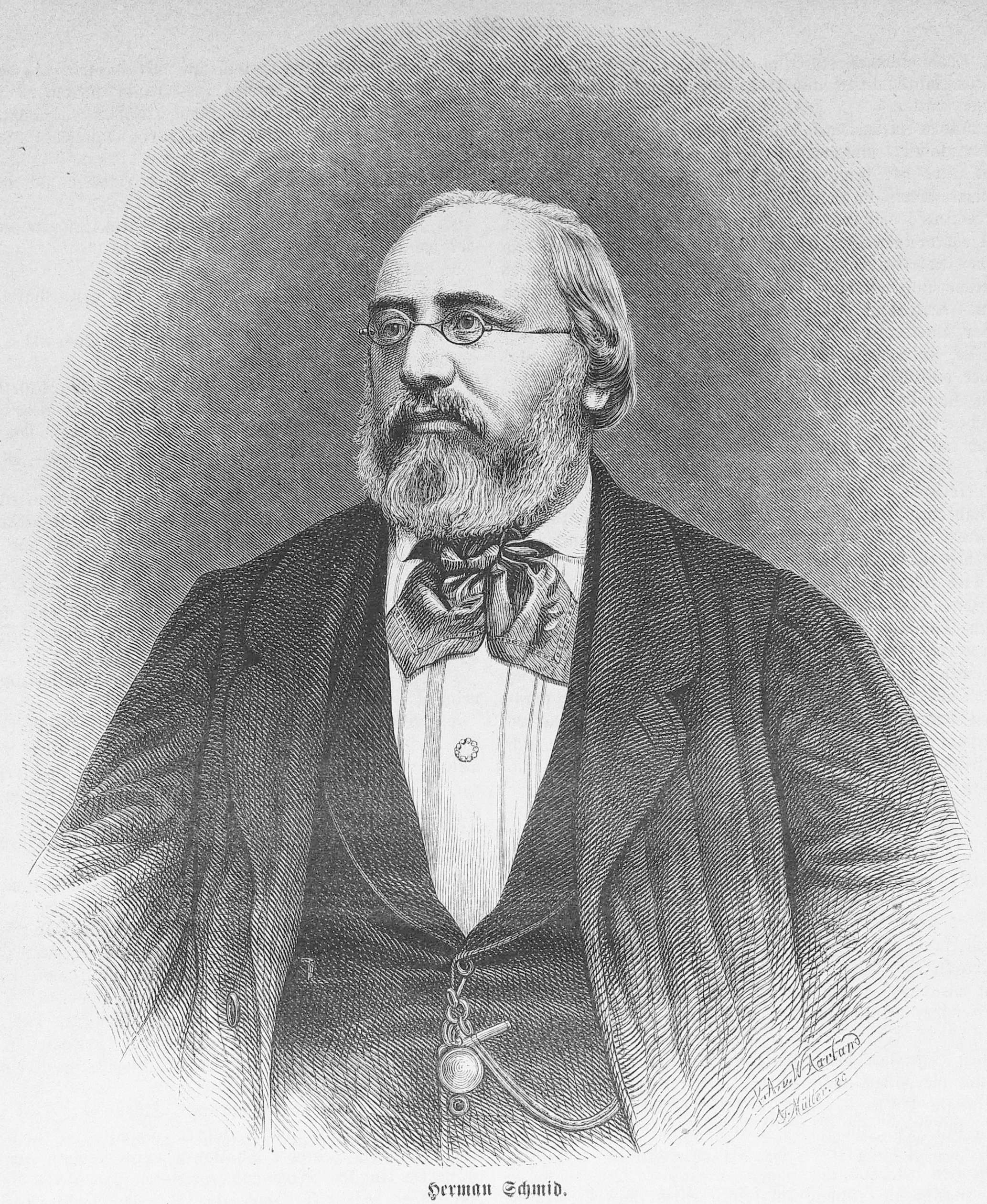 caption: "Herman Schmid."